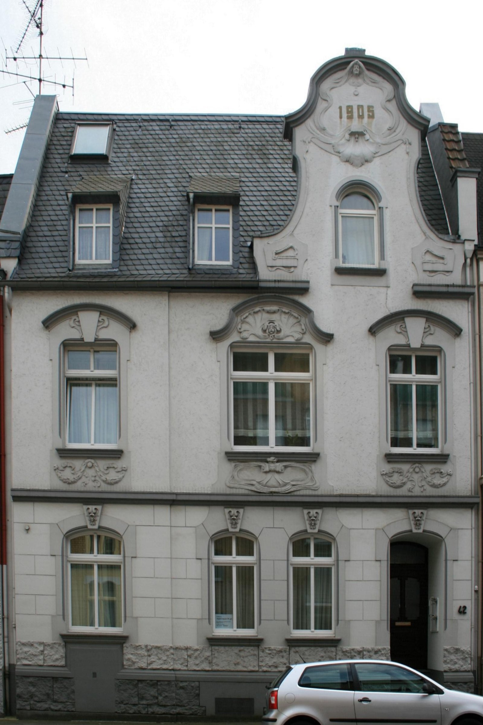 Cultural heritage monument No. H 062 in Mönchengladbach